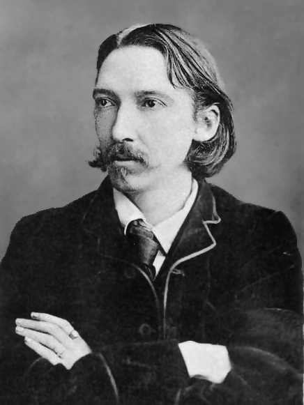 Photograph of author Robert Louis Stevenson